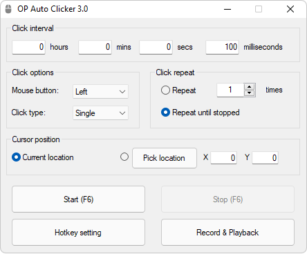 Screenshot of Orphamiel's AutoClicker, an open-source autoclicker software.